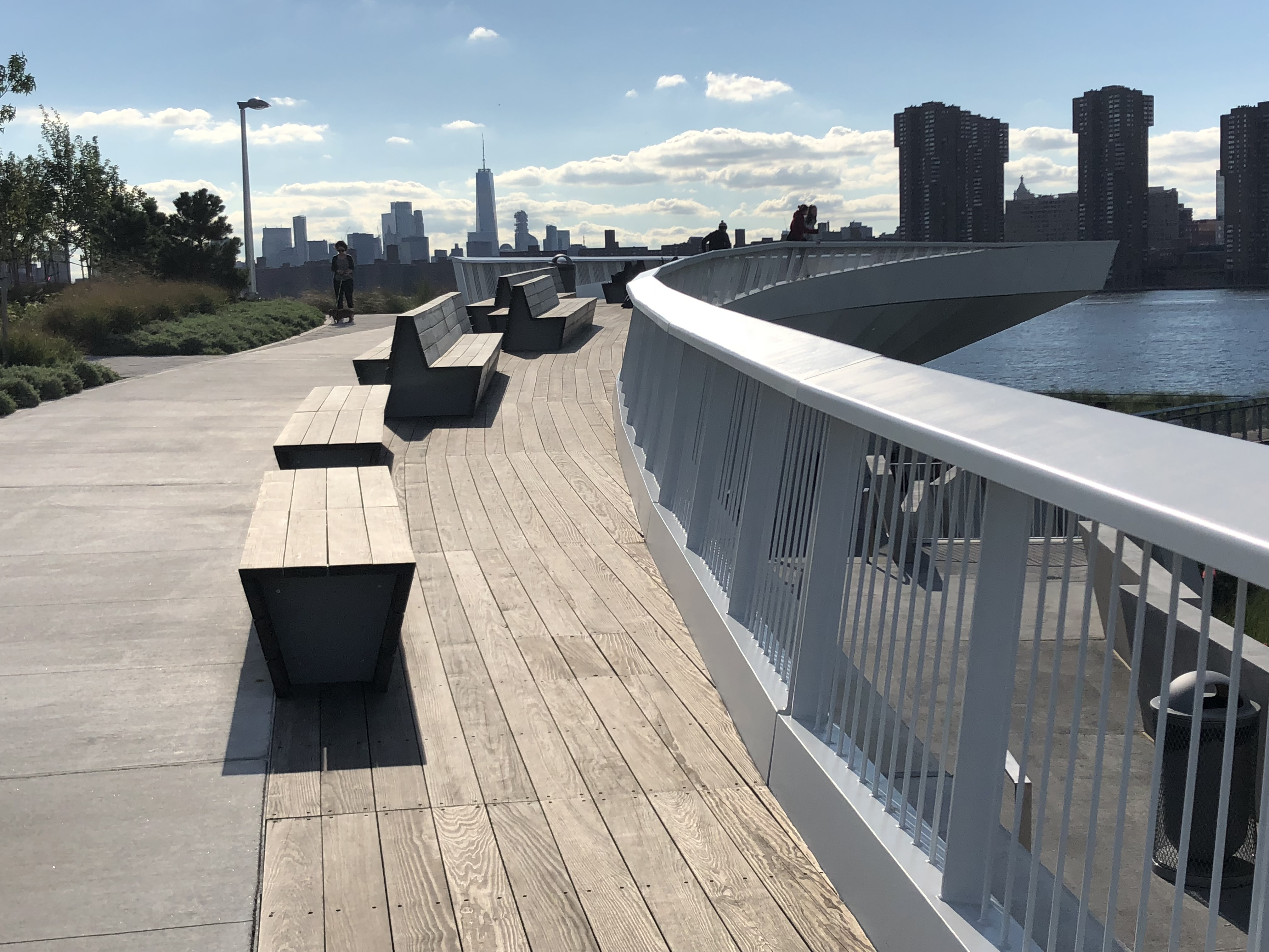 Photos taken on a sunny afternoon in October by Daniel Prostak with a cell phone camera